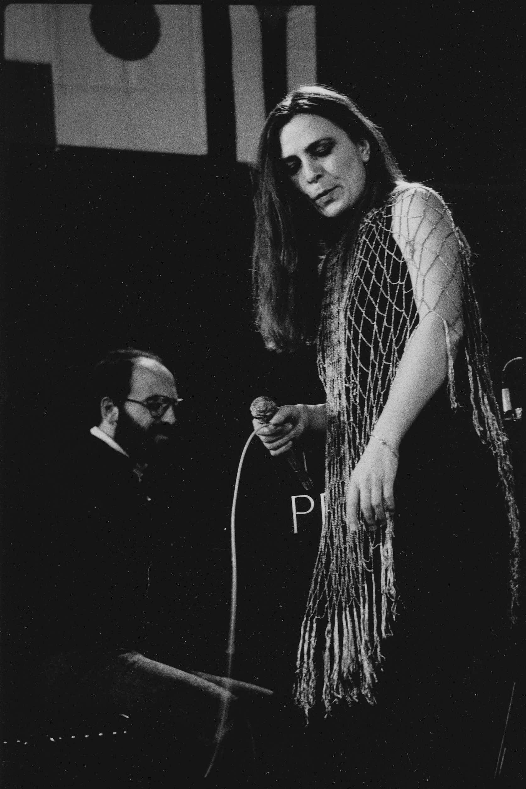 Yaldaz Ibrahimova (Yıldız İbrahimova), International Jazz Festival, Prague, Lucerna Music Hall, 18 October 1984